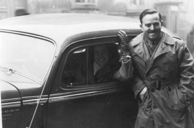 Jacob (Eugene, Jean) Salomon Ha'Haganah east Europe 1947-1948